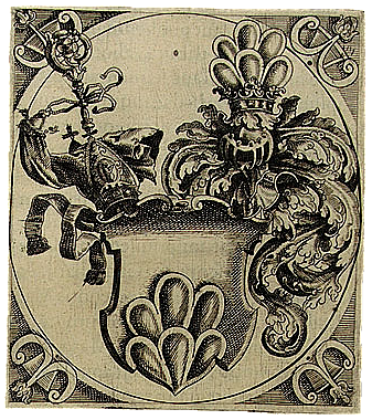 Coat of arms of Markwart VII, baron of Grünenberg, prince abbot of the monastery of Einsiedeln (Markwart I), mentioned from 1330; † October 18th 1376.